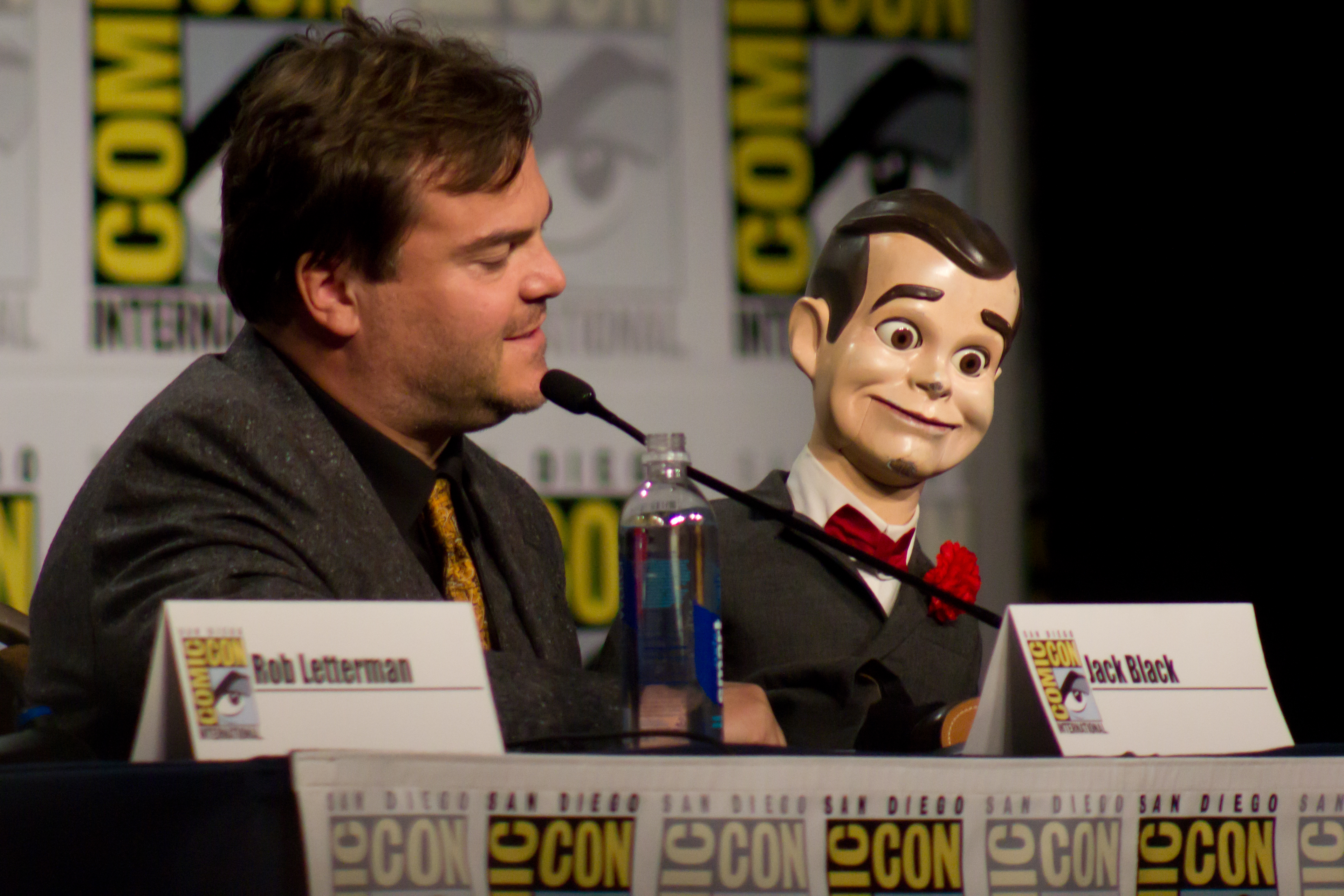 Jack Black at the Goosebumps panel at the 2014 Comic-Con International